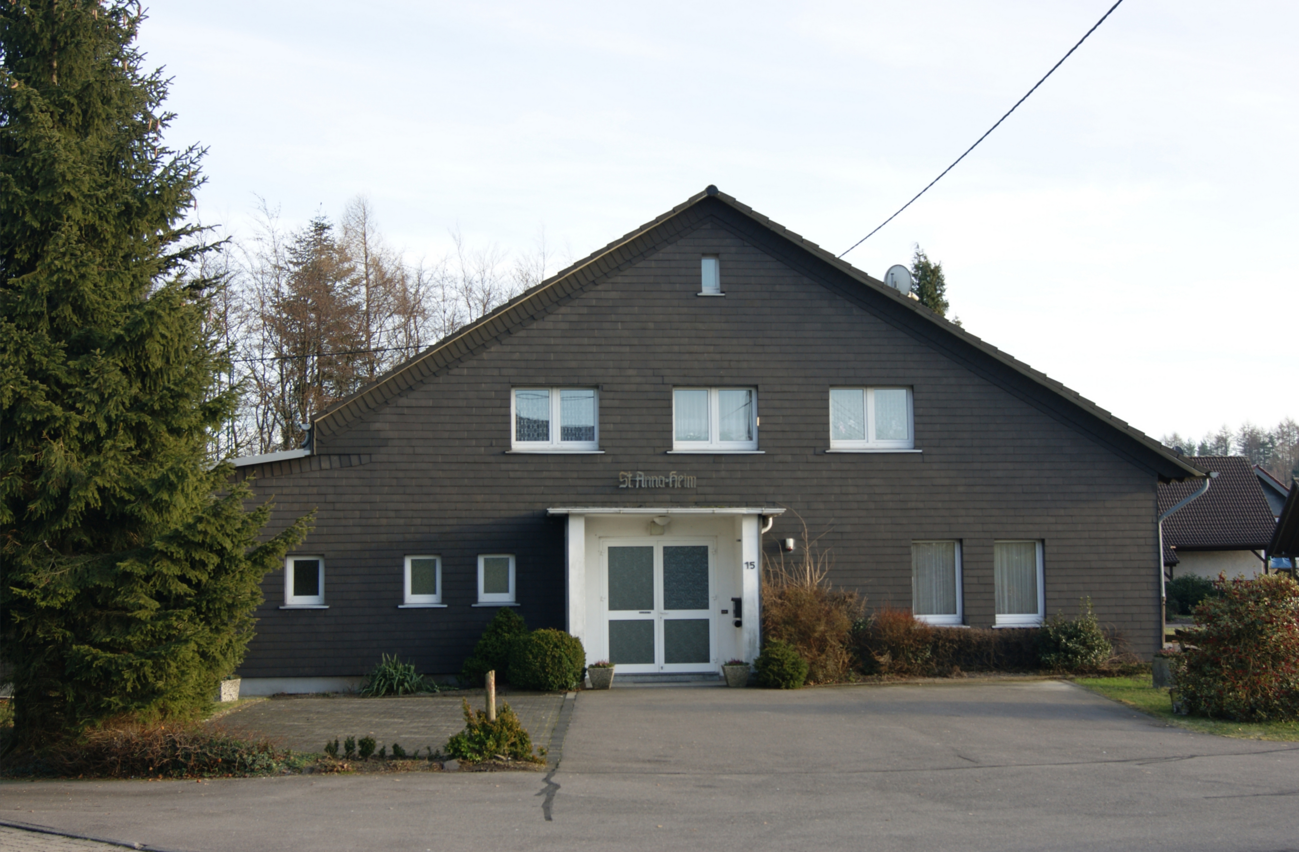 The St-Anna-Heim in Belmicke January 2012